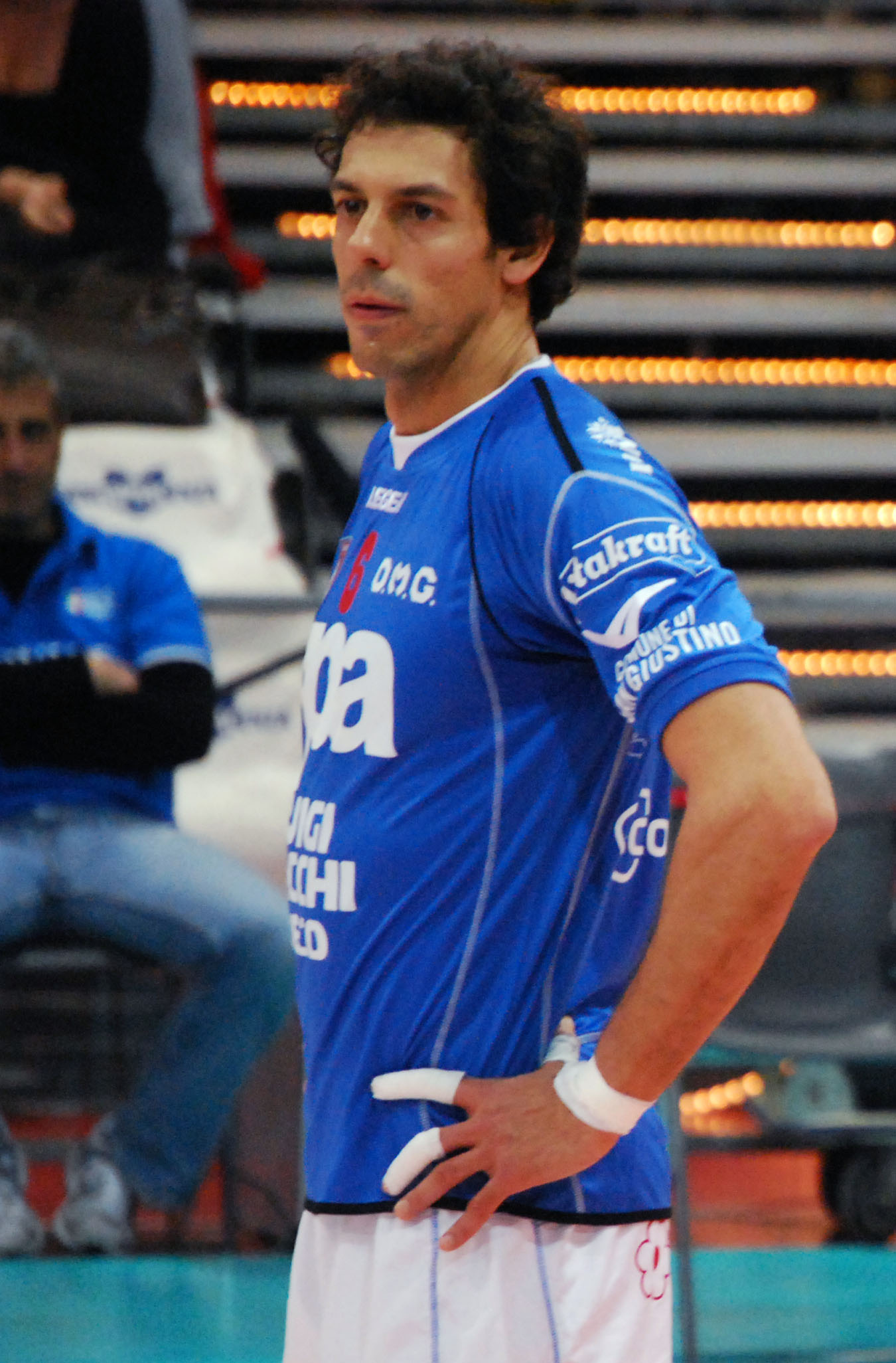 I took this photo during a volleyball match in Piacenza